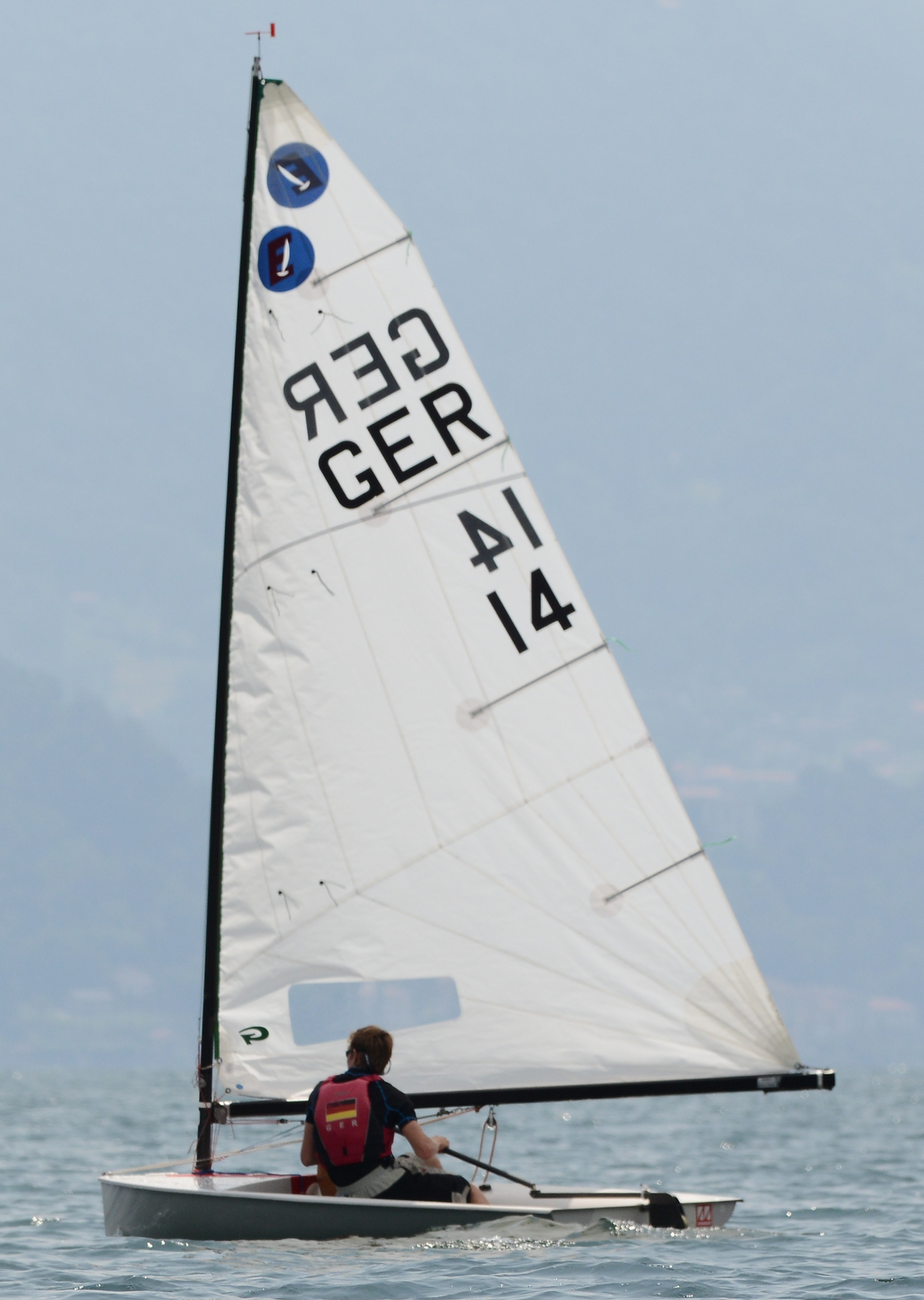 Europe Dinghy GER 14 at Lake Como